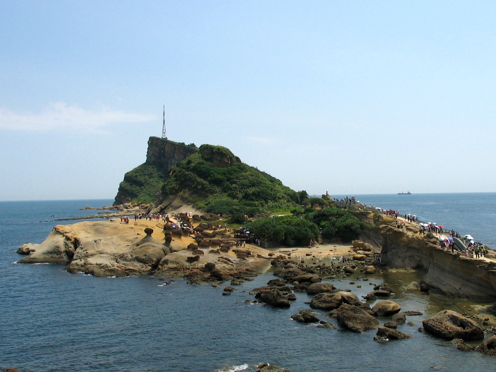 Yehliu cape on Taiwan, view of the northern part